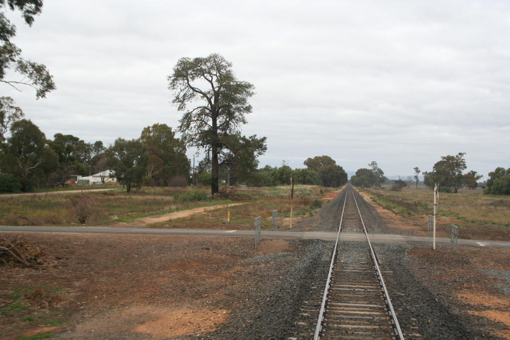 Tabilk railway station, Victoria site.